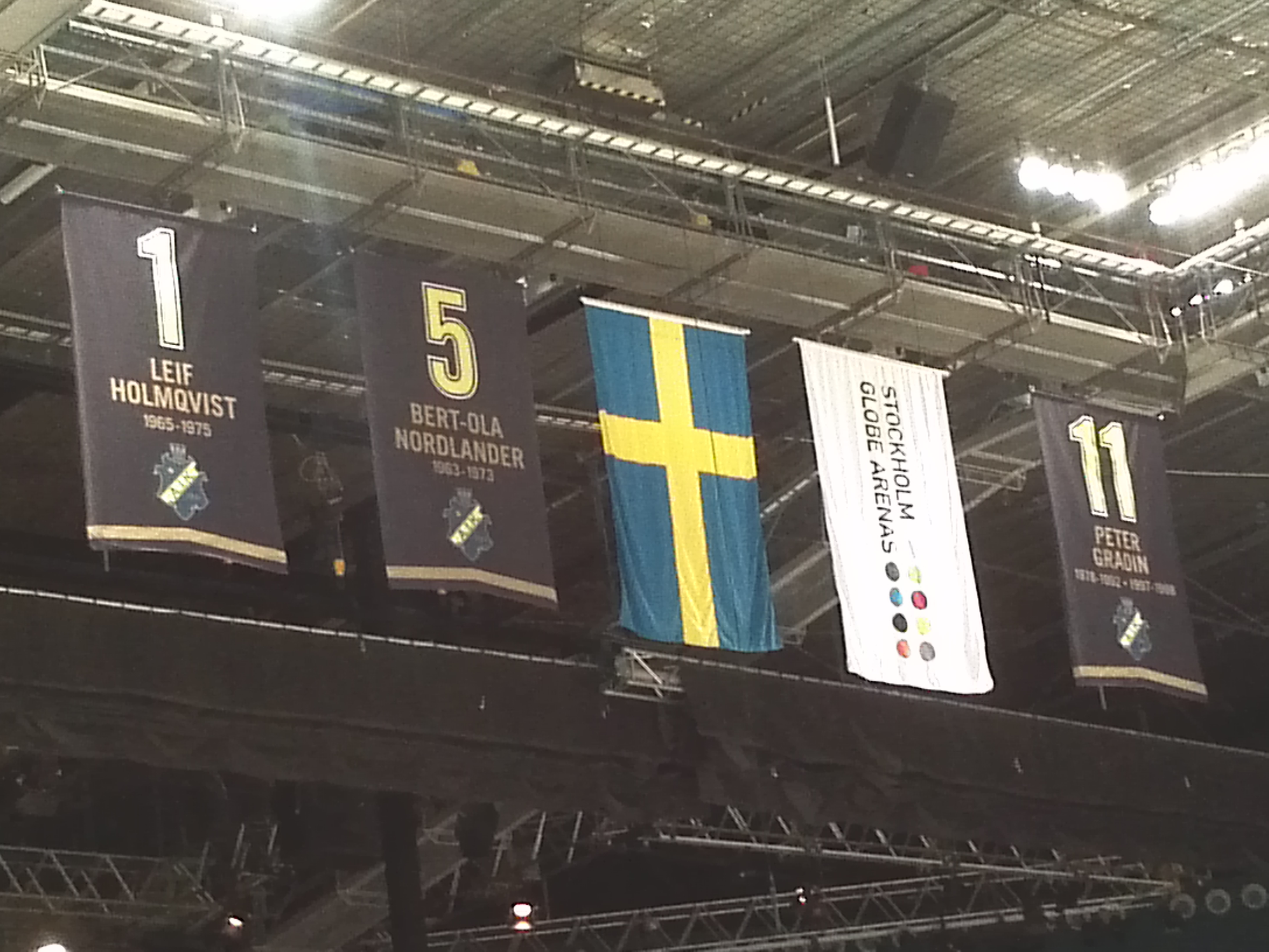 Banderoles of AIK Ishockey at Hovet 2012